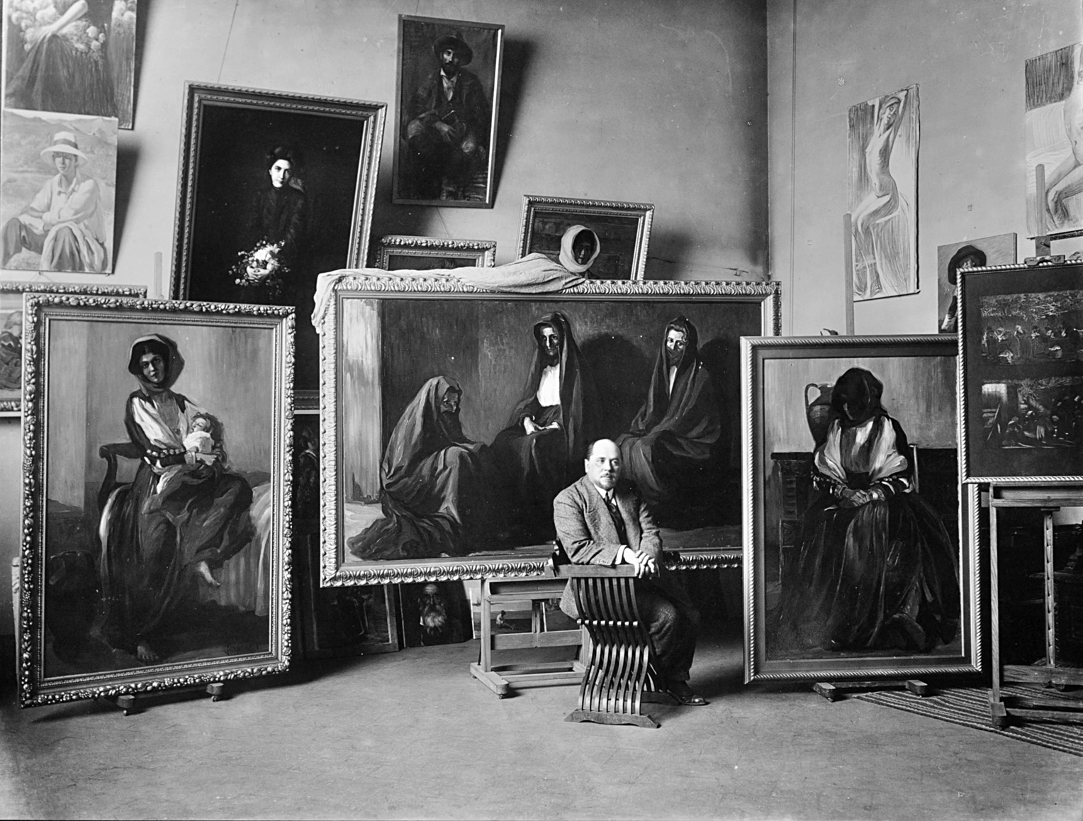 Artist